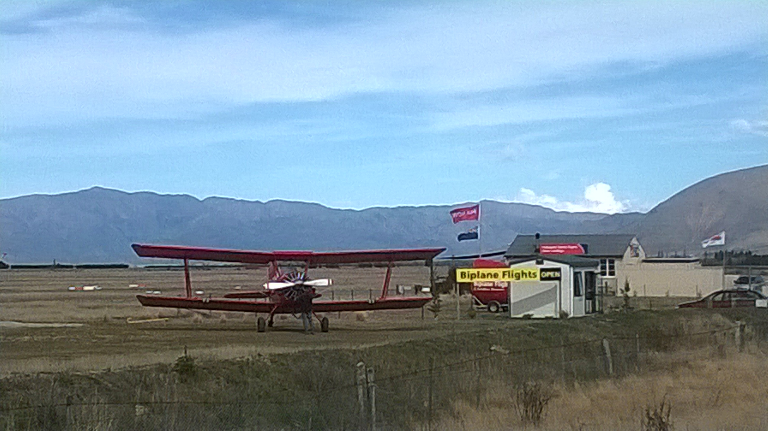 View of the Pukaki Airport